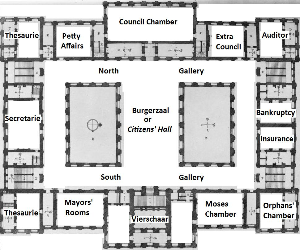 Map of the Palace of Amsterdam